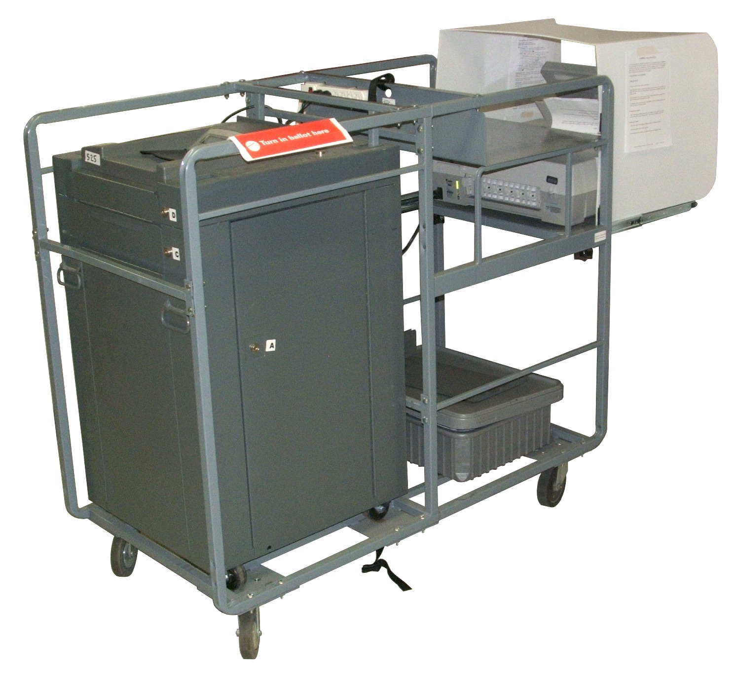 A cart containing an ES&S M100 precinct count ballot scanner atop a Ballot box, with an AutoMARK Ballot marking device in a Voting booth mounted on the rear, over storage space for transporting folded voting booths and other polling place supplies, as deployed on Election day in Johnson County, Iowa in 2010.